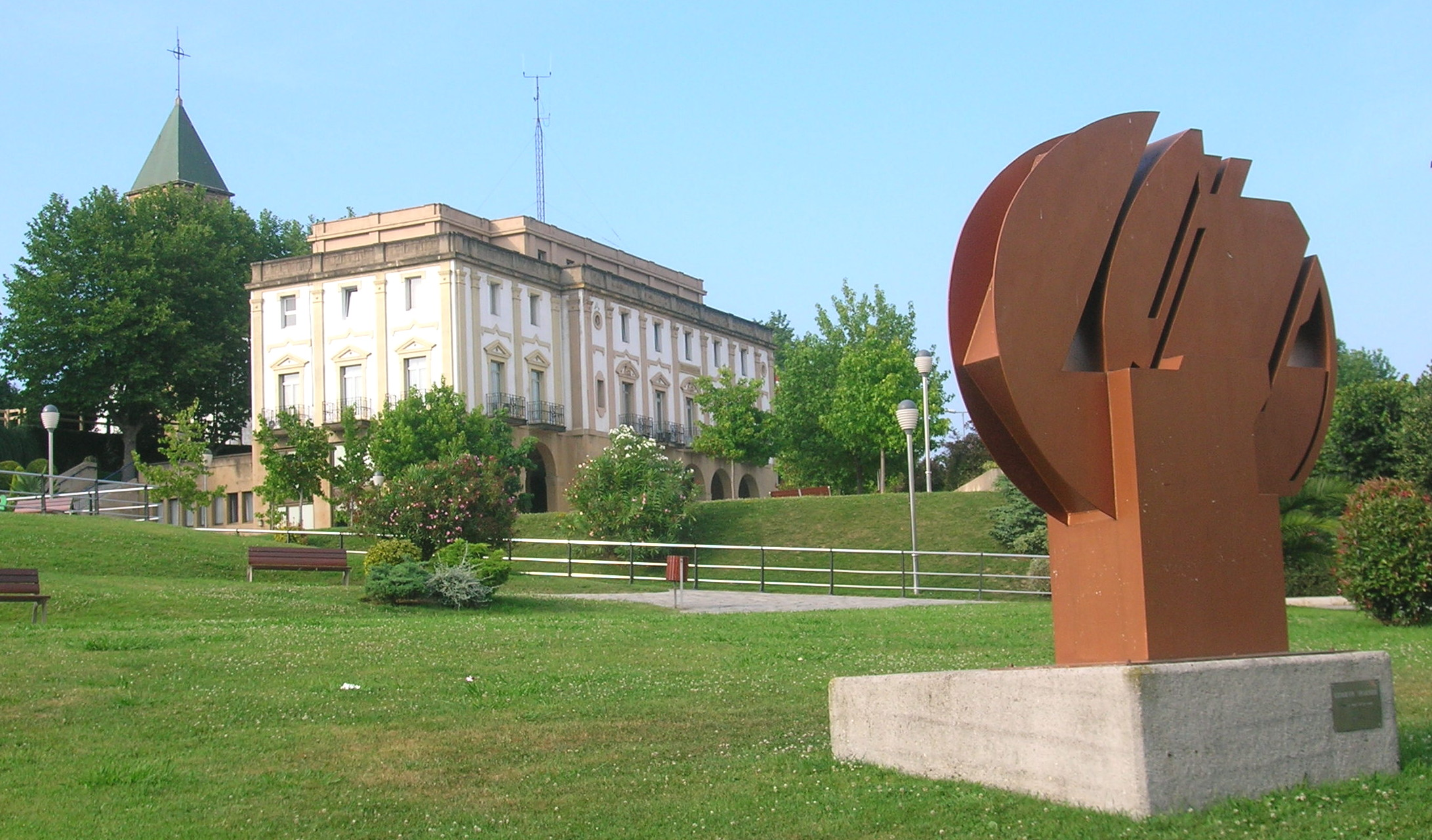 Saint John's church, XIX century town council and Leioako Indarra ("Strength of Leioa") sculpture by Nestor Basterretxea, Leioa.